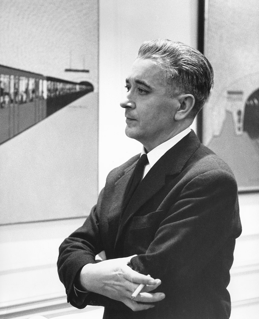 Jacques Hnizdovsky at the opening of his exhibition at Galerie Greuse, Paris, 1957